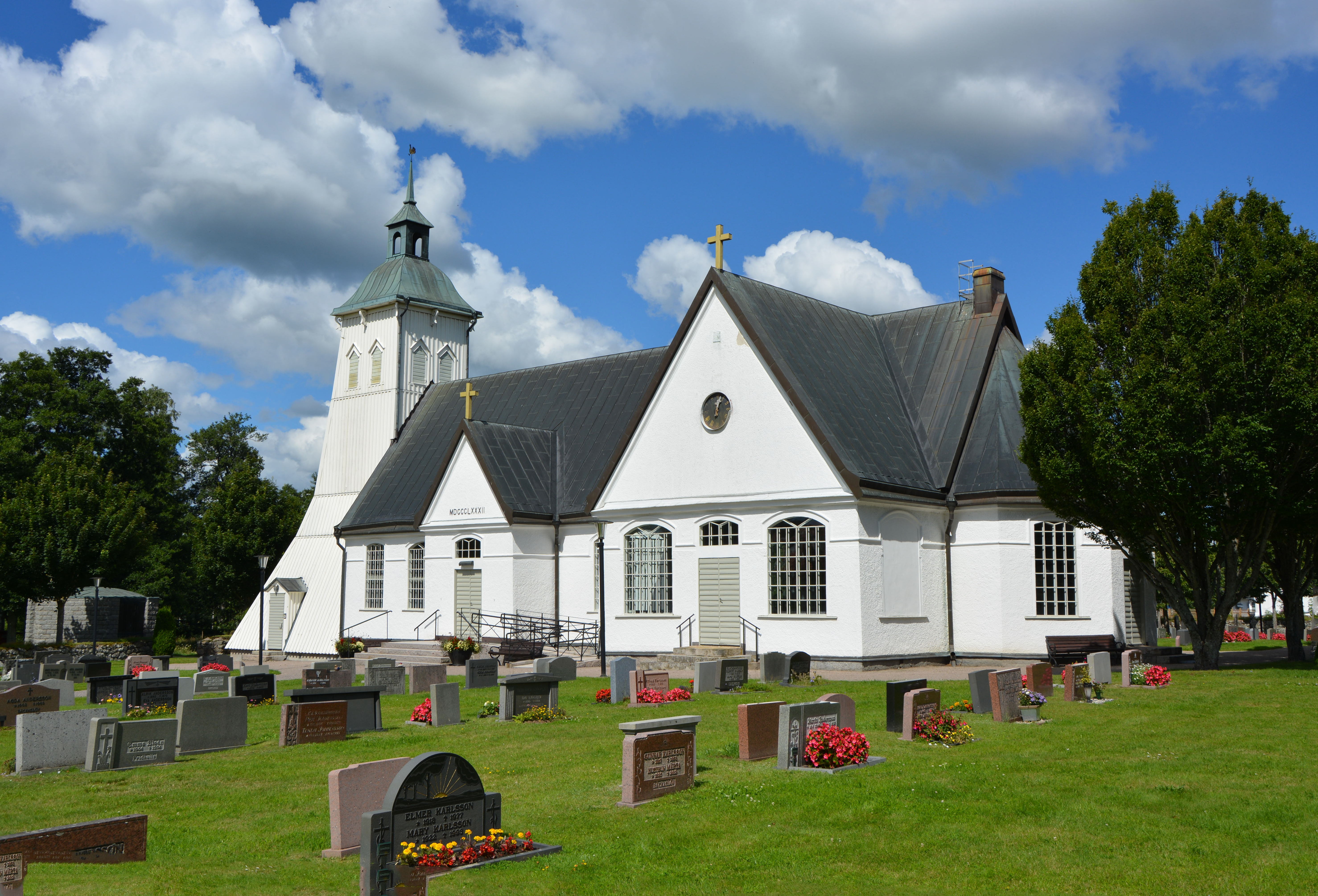 Tävelsås Church. The exterior of the church from the south-east.